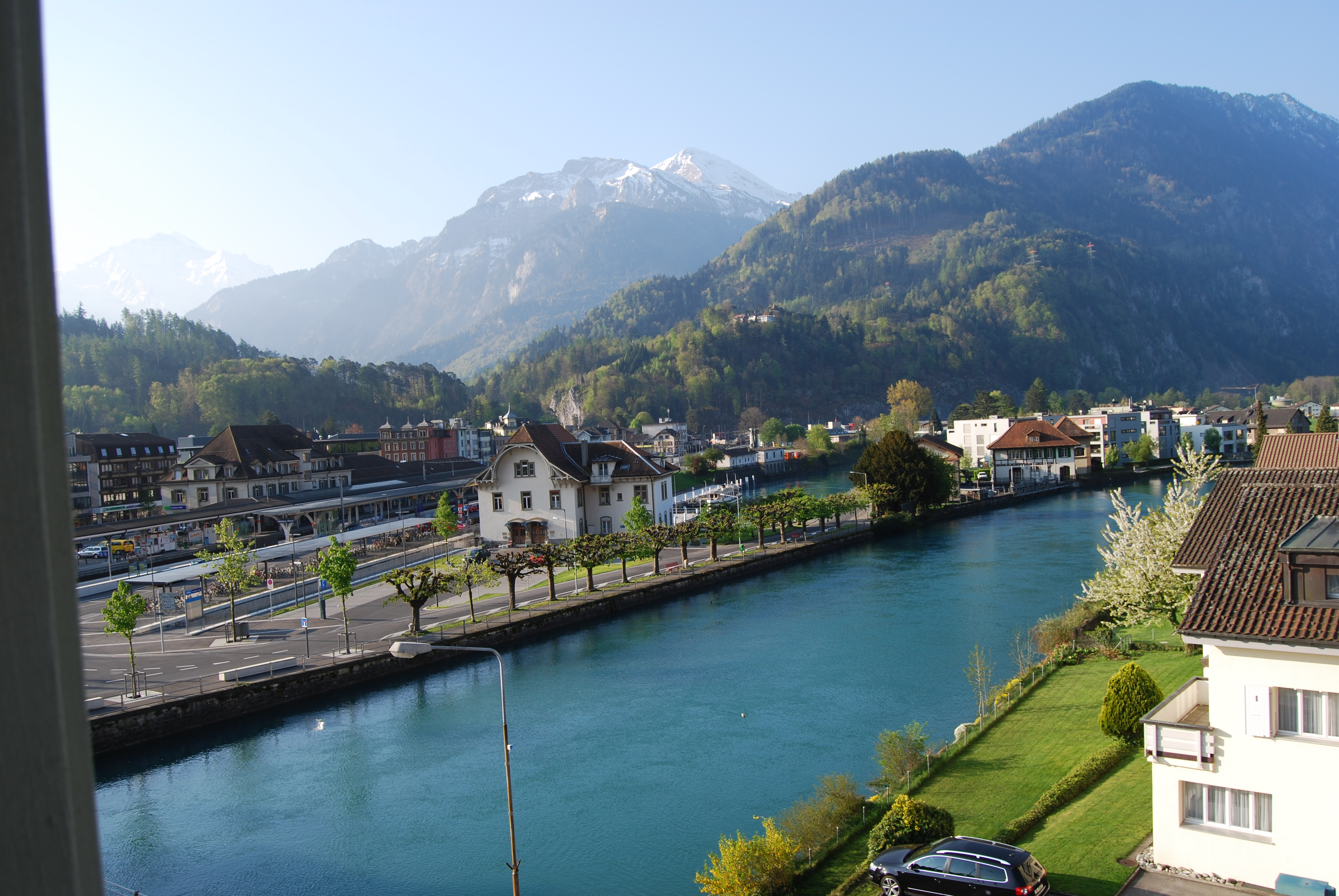 Train station Interlaken West, view from Hotel Central at Unterseen, canton of Bern, Switzerland. The body of water in the foreground is the (unnavigable) Aar river, whilst the terminus of the Interlaken ship canal can be seen in the mid-distance between station and river. For more information, see Wikipedia articles Interlaken West railway station, Aar and Interlaken ship canal.